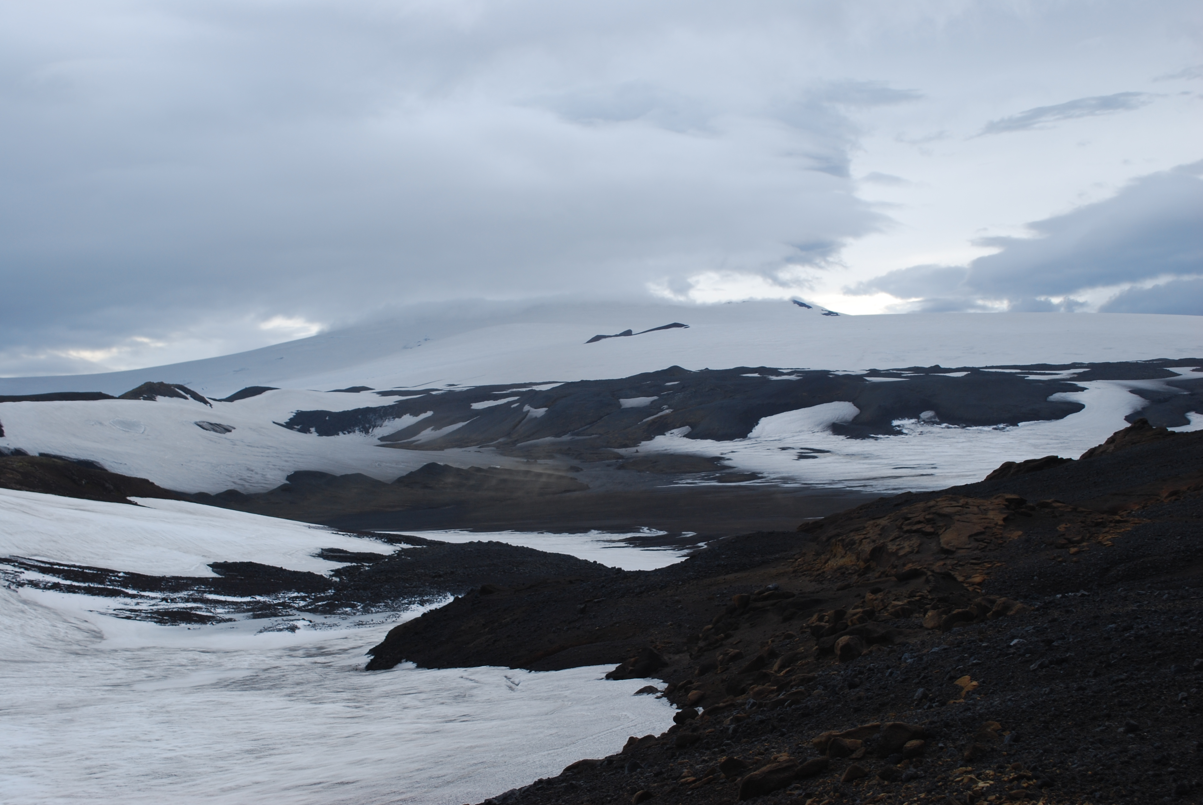 Surroundings of Fimmvörðuháls area, Iceland. Summit area of Eyjafjallajökull volcano.